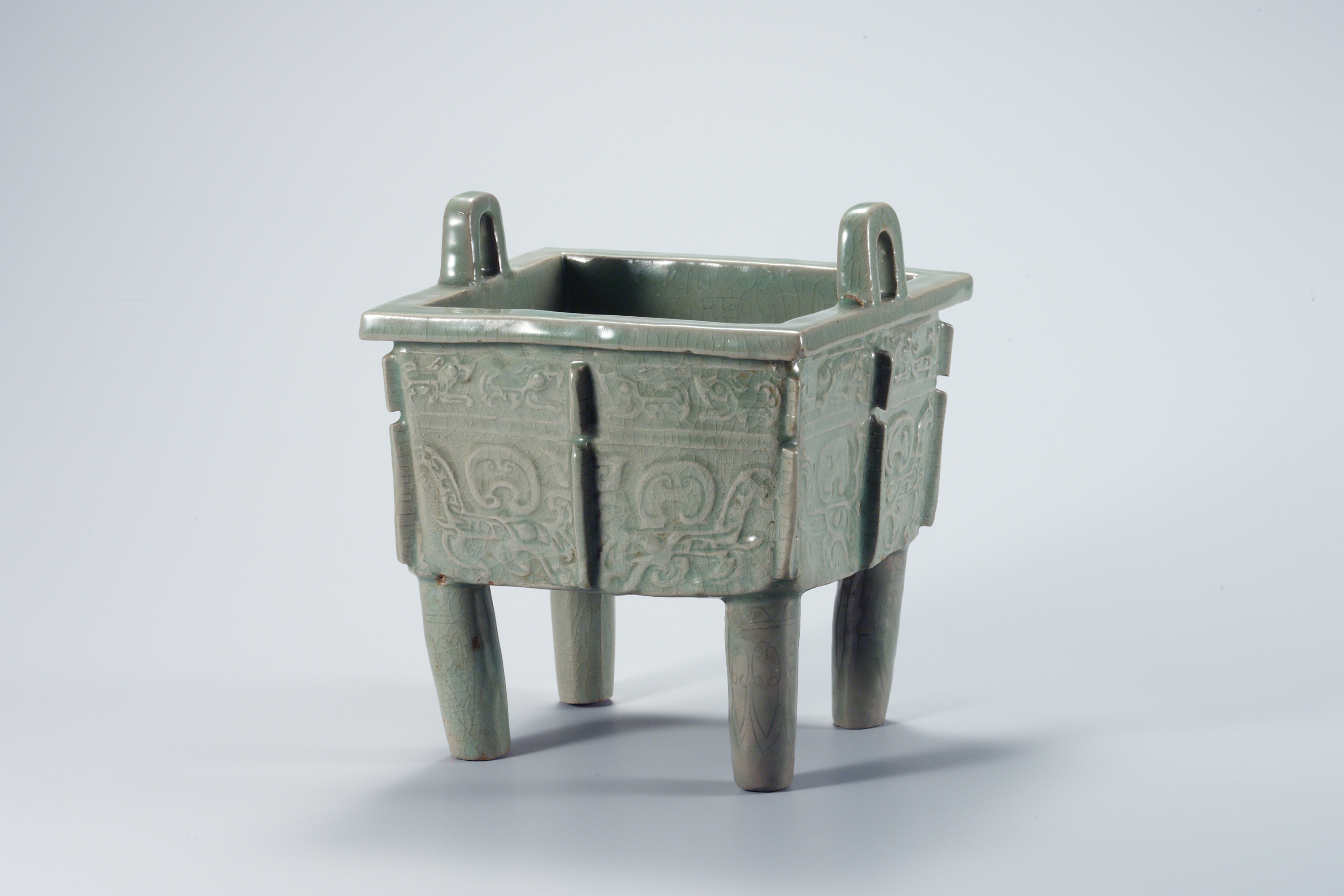 Celadon Square Incense Burner with Ogre Mask Design in Relief